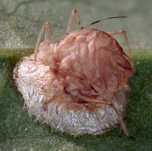 Larvae of the parasitoid wasps in genera Praon leaves the hollowed shell of the aphid from below to pupate in a volcano-like cocoon.